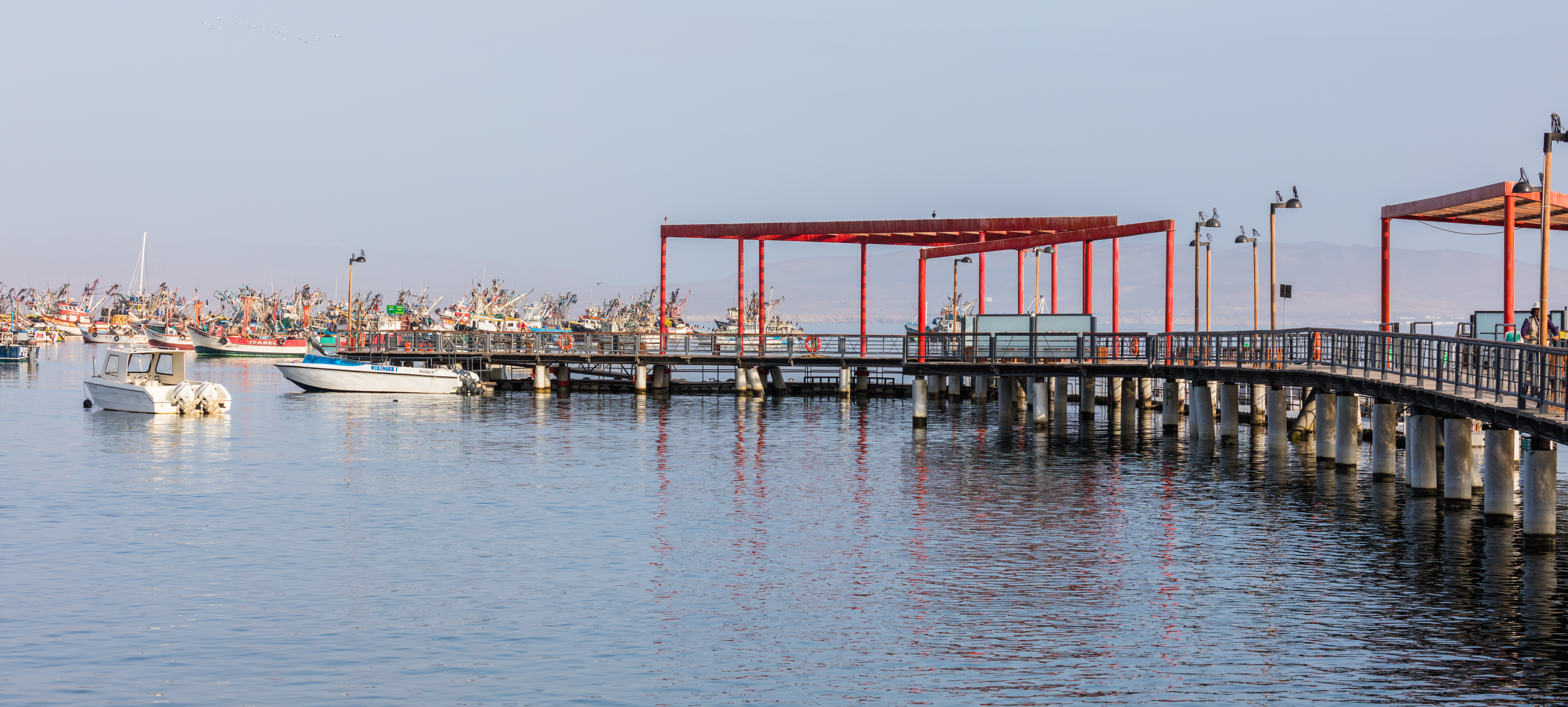 Port of Paracas, Peru